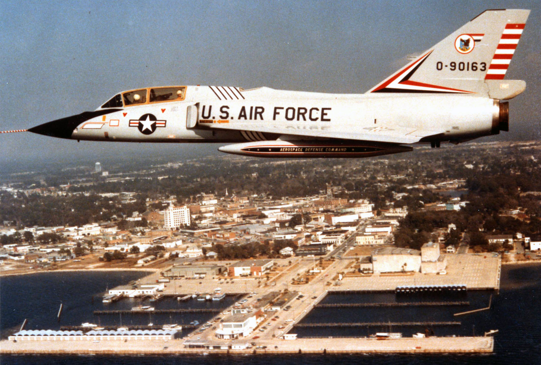 A two-seat Convair F-106B-80-CO Delta Dart (S/N 59-0163, third to last -B model produced).